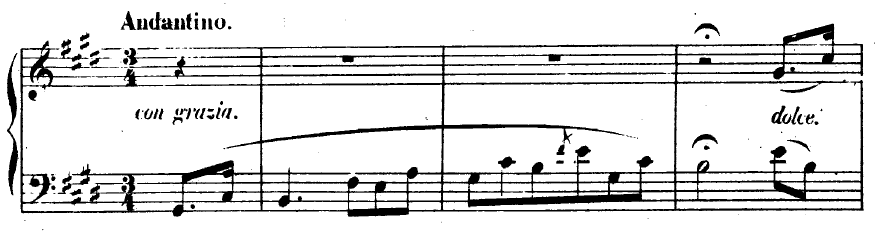 Sheet Music, 1850 Breitkopf, Consolations S.172/5, Opening Bars